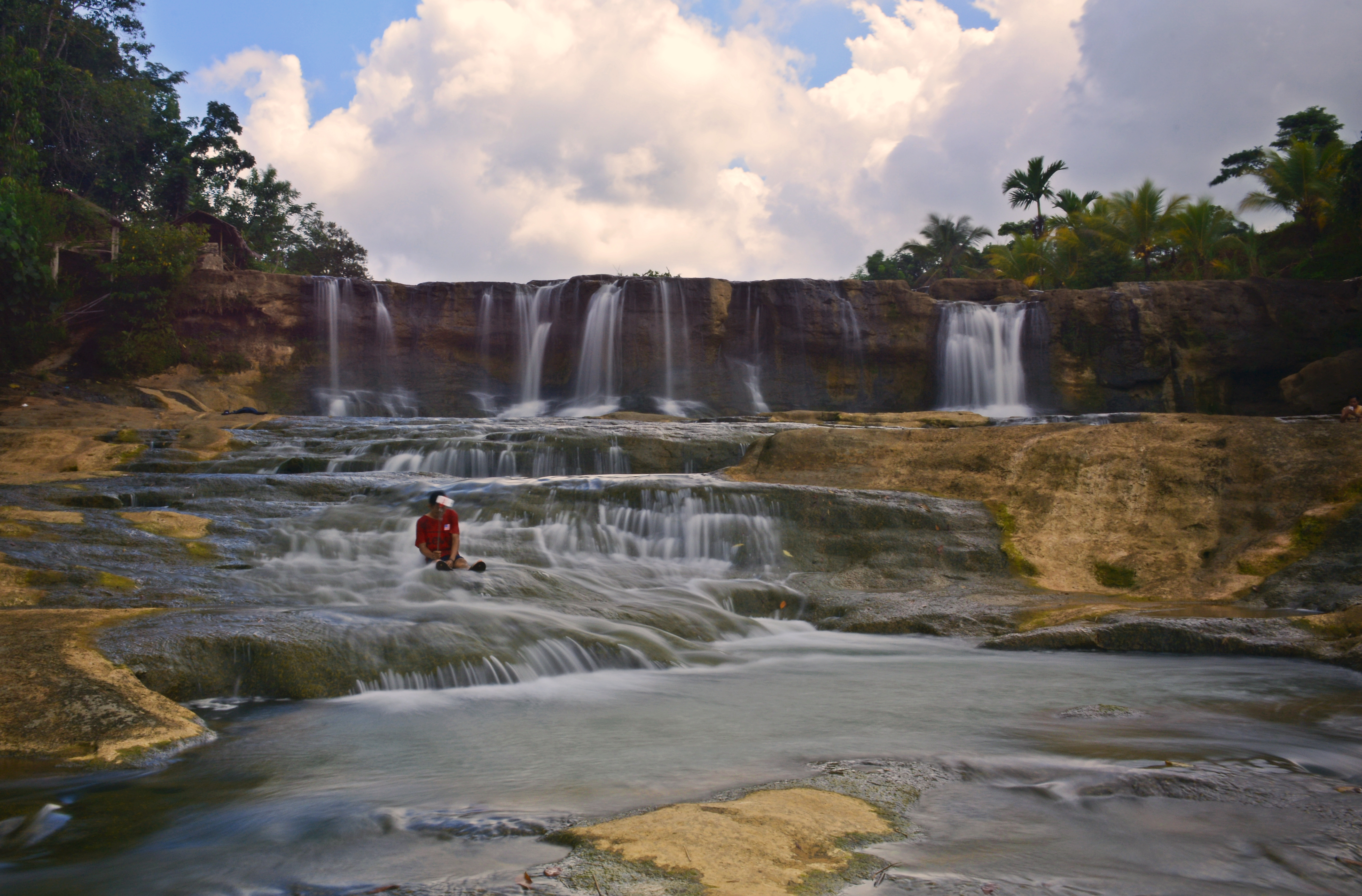 Dengdeng waterfall viewed from far front. Behind the photographer, there is another waterfall below